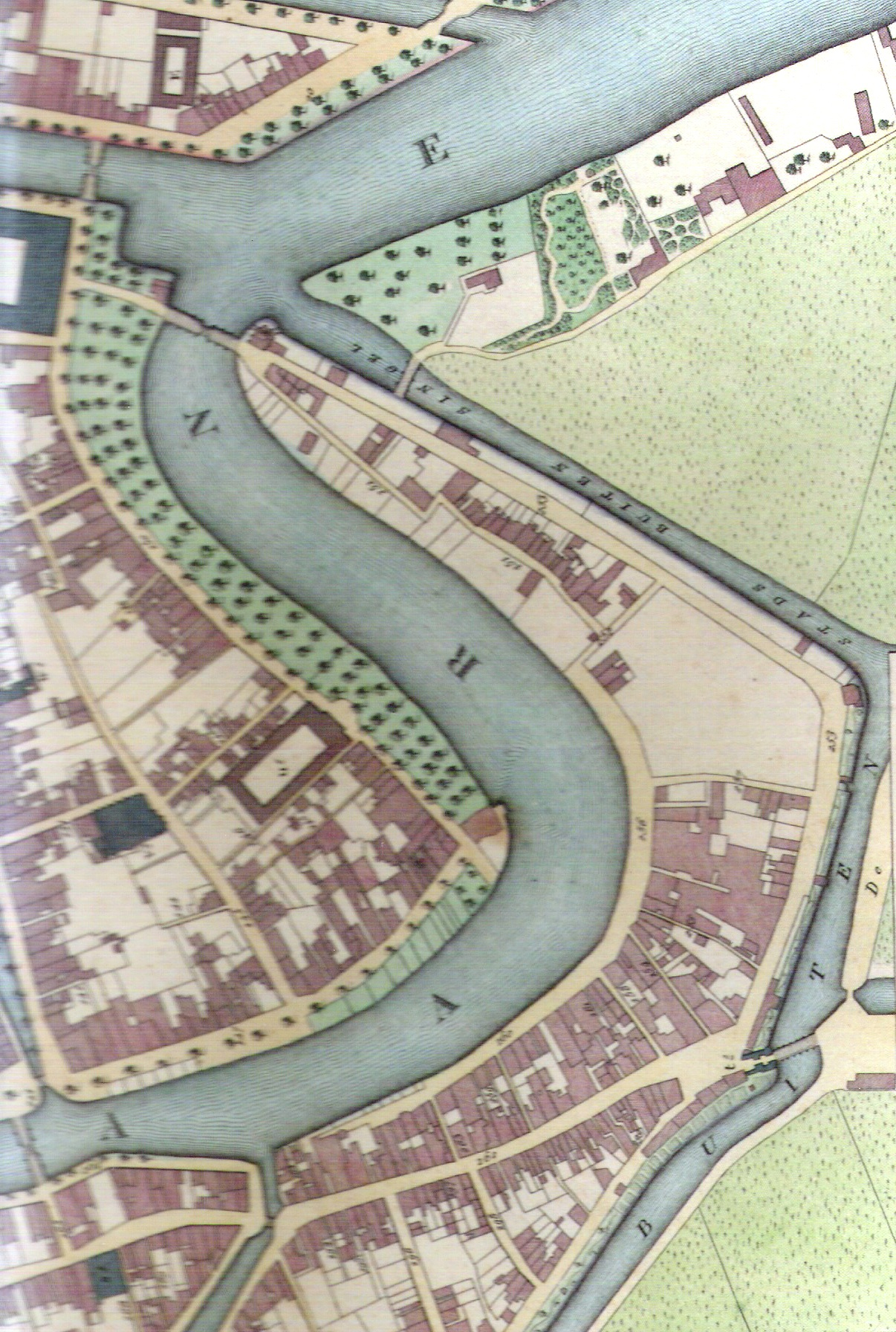 Northeast detail of Nautz 1829 map of Haarlem showing The Spaarne river with the Houtmarkt on the right bordered by the Stads Buiten Singel, in 1827. Map date: 1829 Colored copper engraving by W.C. van Baarsel in Amsterdam. Source: Ferdinand Joseph Nautz(1785-1841) surveyor. Nautz was a member of a group of surveyors hired in 1817 to map the Dutch towns in order serve as a basis for taxes. The hand-colored and hand-drawn maps were created in 1822 by Nautz and his colleagues H.C. van Dooren and A. van Diggelen. They are in the possession of the National Archives. For the town of Haarlem, Nautz created a set of maps of Haarlem where not only ownership rights, but also houses were drawn. Quite popular, these maps were reproduced by book sellers and sold at the time for 3 guilders to travelers as the first city-maps. This set of maps belongs to the city of Haarlem, and has been used as the basis for city planning as late as 1900. In the archive museum of Haarlem, a model of the city is on show based on this map. Scanned from 2002 reproduction of one of many copies of the 'Nautz of Haarlem' in possession of North Holland Archives. Archiefdienst voor Kennemerland/Historische Museum Zuid-Kennemerland, Haarlem